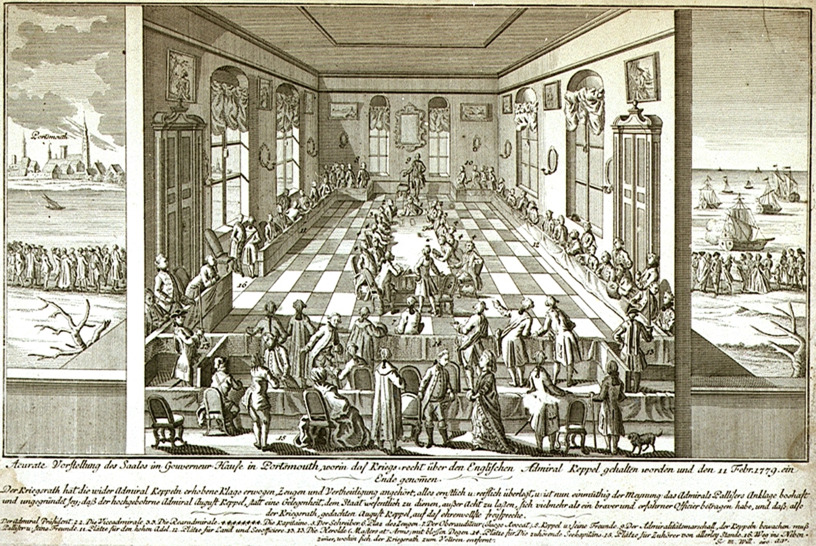 Accurate representation of Governor's House in Portsmouth, where court-martial of English Admiral Keppel took place 11 Feb 1779...